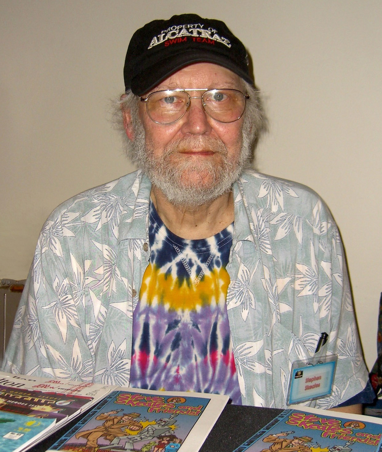 Comics creator Stephen Skeates at the Big Apple Convention in Manhattan, May 21, 2011. Photographed by Luigi Novi. This photo is not in the public domain. It may, however, be used, modified and published for any purpose, free of charge, only if the photographer is properly credited, either by linking the photograph to this page, or with an easily visible credit to the photographer placed near the photo in each instance in which it is used. (See licensing information below.) Publication of this photo without this proper attribution constitutes copyright infringement. If you have any questions, you can contact me on my Wikipedia Talk Page.